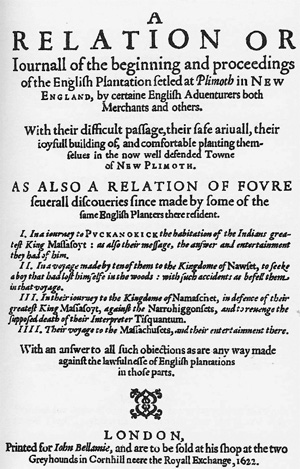 Frontispiece of "Mourt's Relation," published in 1622 in London. It is the earliest known account of the events in Plymouth Plantation in Massachusetts.